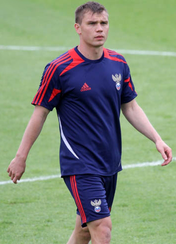 Marat Izmailov with Russia national football team